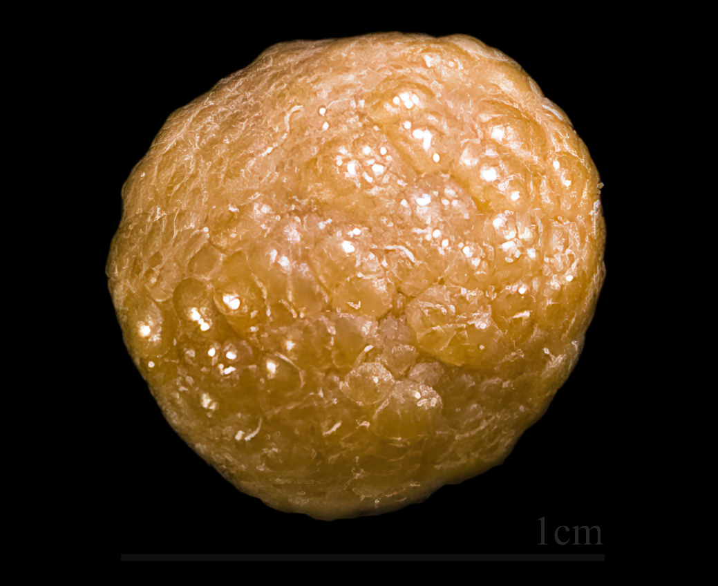 Siderite (Var.: Sphärosiderite) Localité : Batère Mine (Pyrénées Orientales) France Size : (1cm)